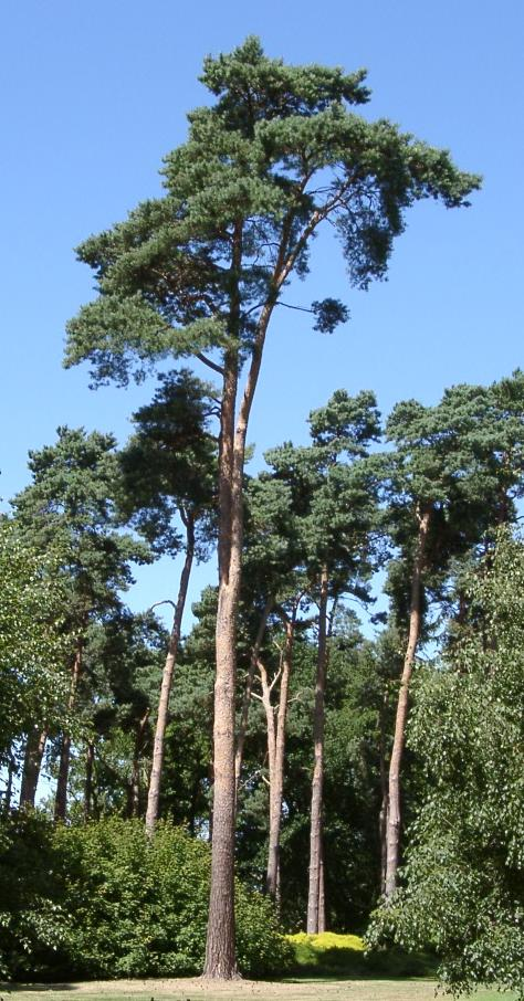 Scots Pine, planted in a park. Photo by Ramin Nakisa.